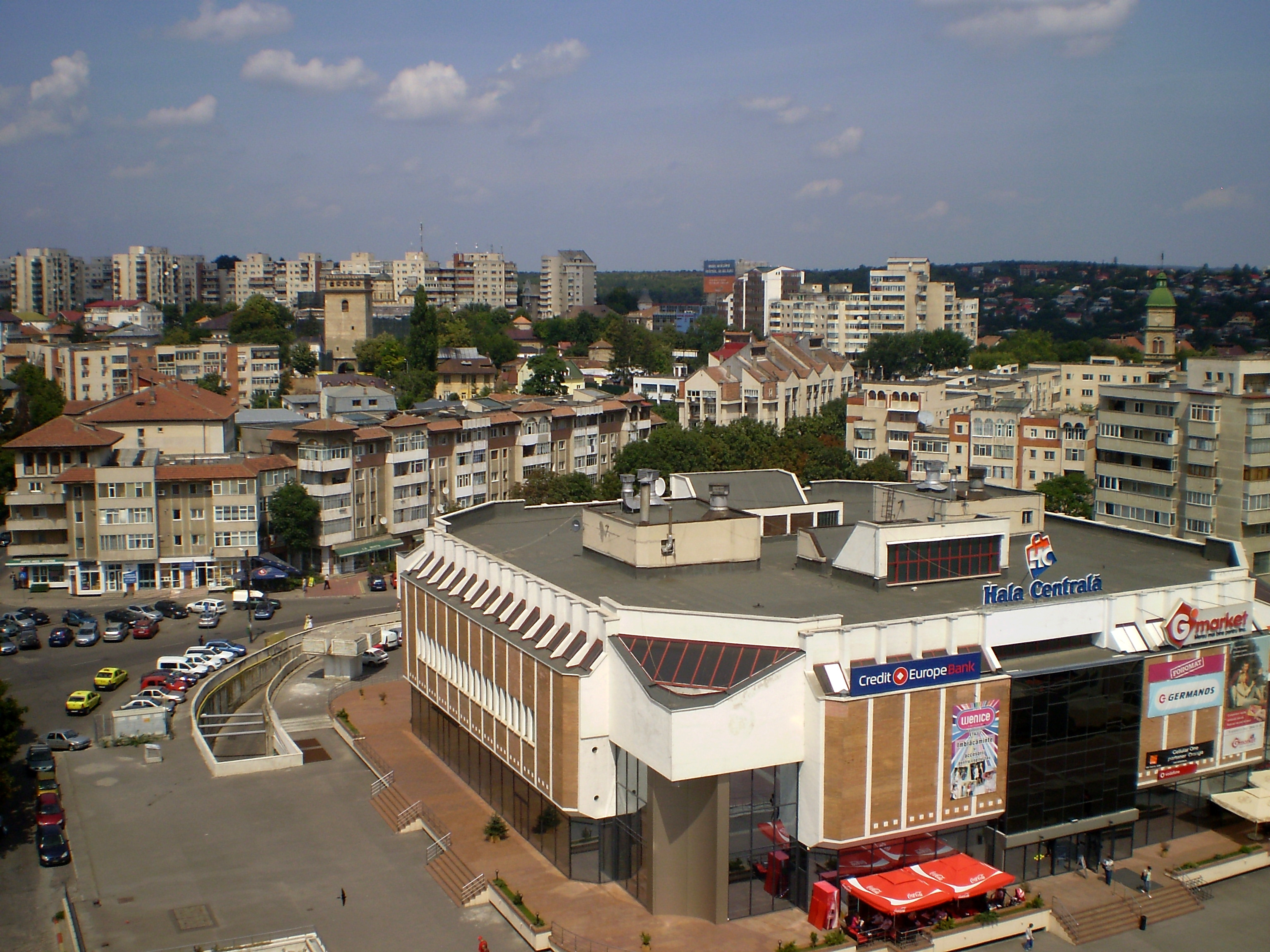 Iaşi , panoramic view to the Civic Center , Central Market , Golia Tower and Bărboi Tower , Iaşi , RomaniaRomână: Iaşi , vedere spre Centrul Civic , Hala Centrală , Turnurile Golia şi Bărboi , Iaşi, România